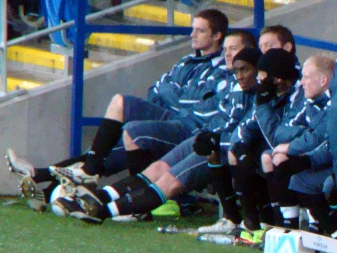 From left: Andy King, Matty Fryatt, Steve Howard, Lloyd Dyer, Robbie Neilson and Conrad Logan. Image cropped from original at Flickr.